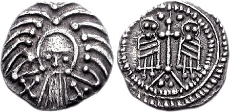 Anglo-Saxons, Secondary Sceattas. Circa 710-760. AR Sceat (1.11 g, 4h). Type 30b. Mint in the East Midlands. ‘Wodan head’, with long beard, facing; saltires flanking beard Two figures standing facing; long cross between, set on triangular base with trefoil, pellets above; triple border (the middle linear, the others pelleted). Beowulf 94 (this coin); Abramson P940; Metcalf 430 var. (crosses flanking figures); North 171 var. (same); SCBC 844. EF, toned. Rare. From the Beowulf Collection. "The prototype for the facing head on Type 30 sceattas can be found in images of Medusa, which were commonly used as good luck charms in the Roman period (Gannon, pp. 30-31). The reverse type has numerous possible prototypes in classical sources, both numismatic and non-numismatic. These diverse origins notwithstanding, there are common ideas enshrined in them that certainly were influential in the development of this type. The crosses around the figures serve the same apotropaic function as on the similar, single-figure type (see lot 1363, above), but the addition of a second figure with similar features implies concerted action among equals (Gannon, pp. 101-103)."